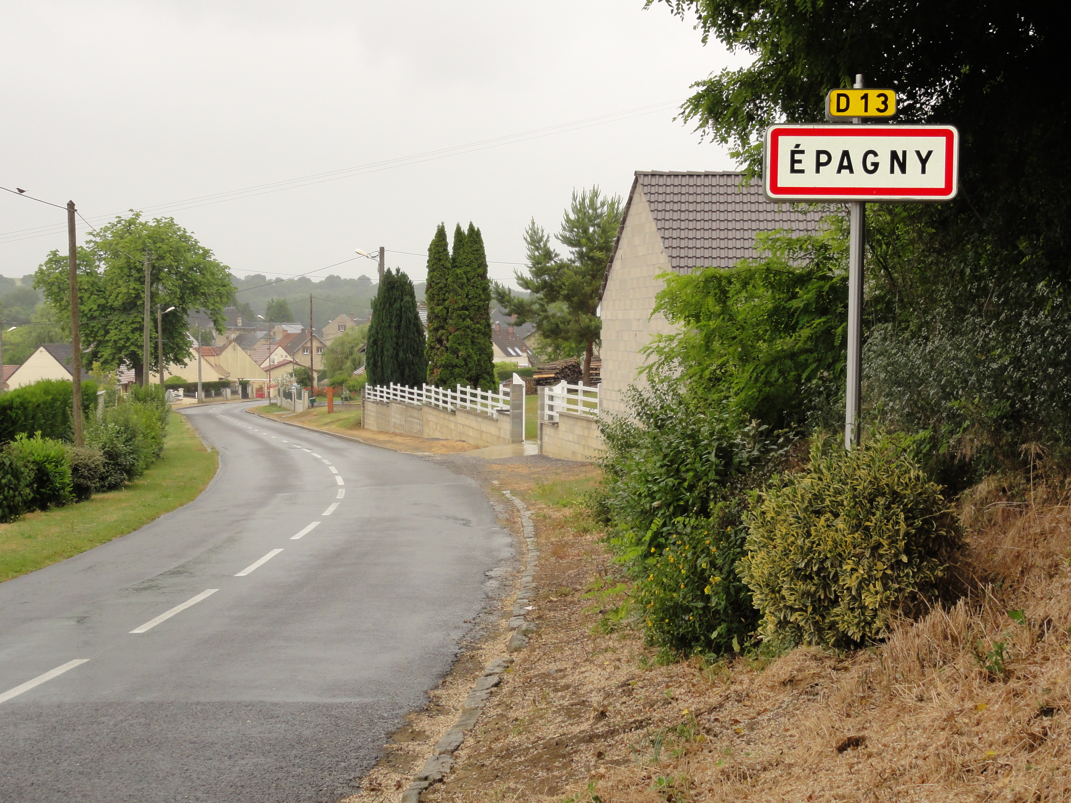 Épagny (Aisne) city limit sign